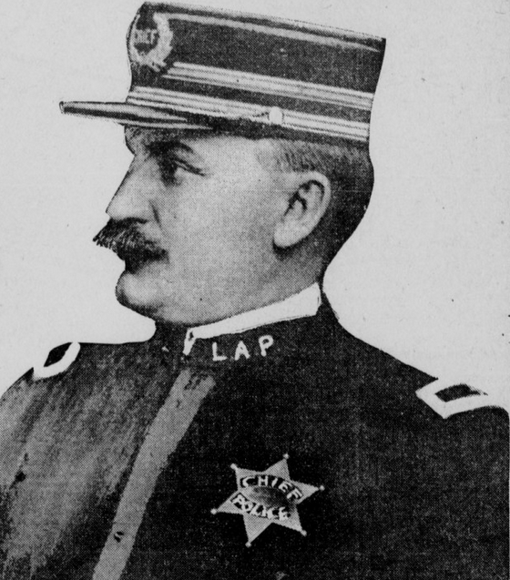 Police Chief Edward Kern